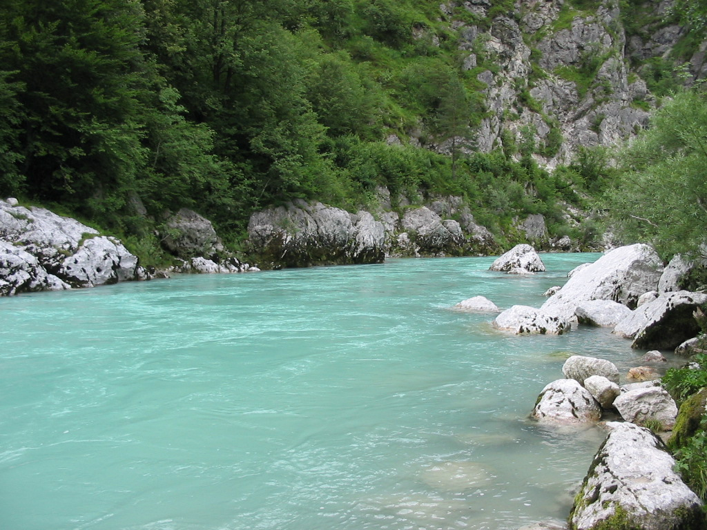 Author: Reinhard Kuknat, Germany